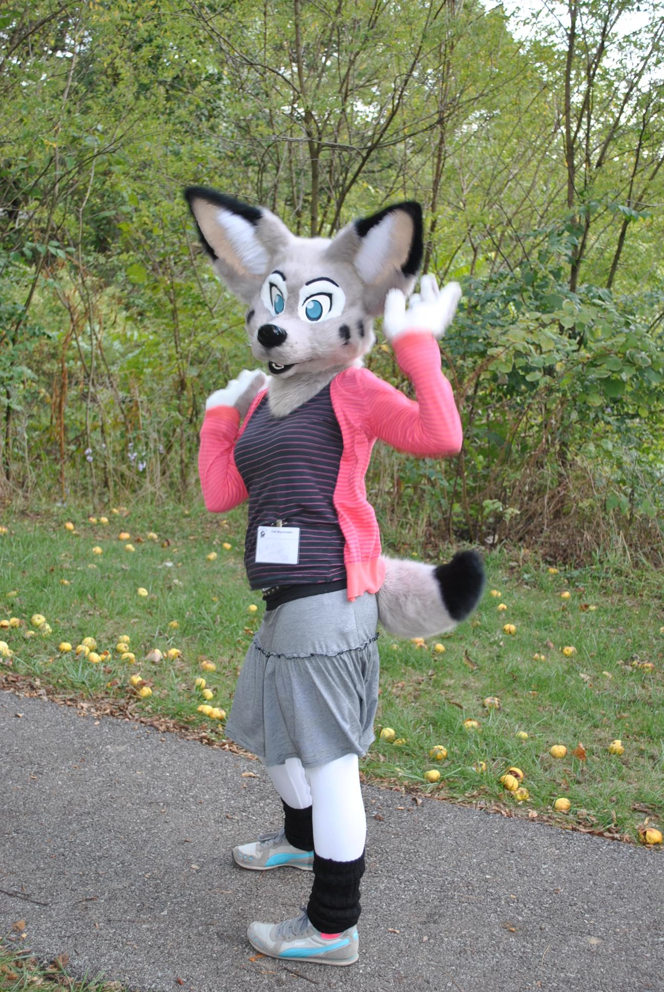 Fursuit photo shoot